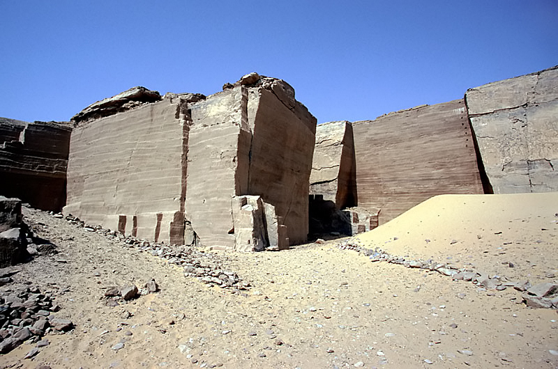 Sandstone quarry, west bank, Gebel el-Silsila